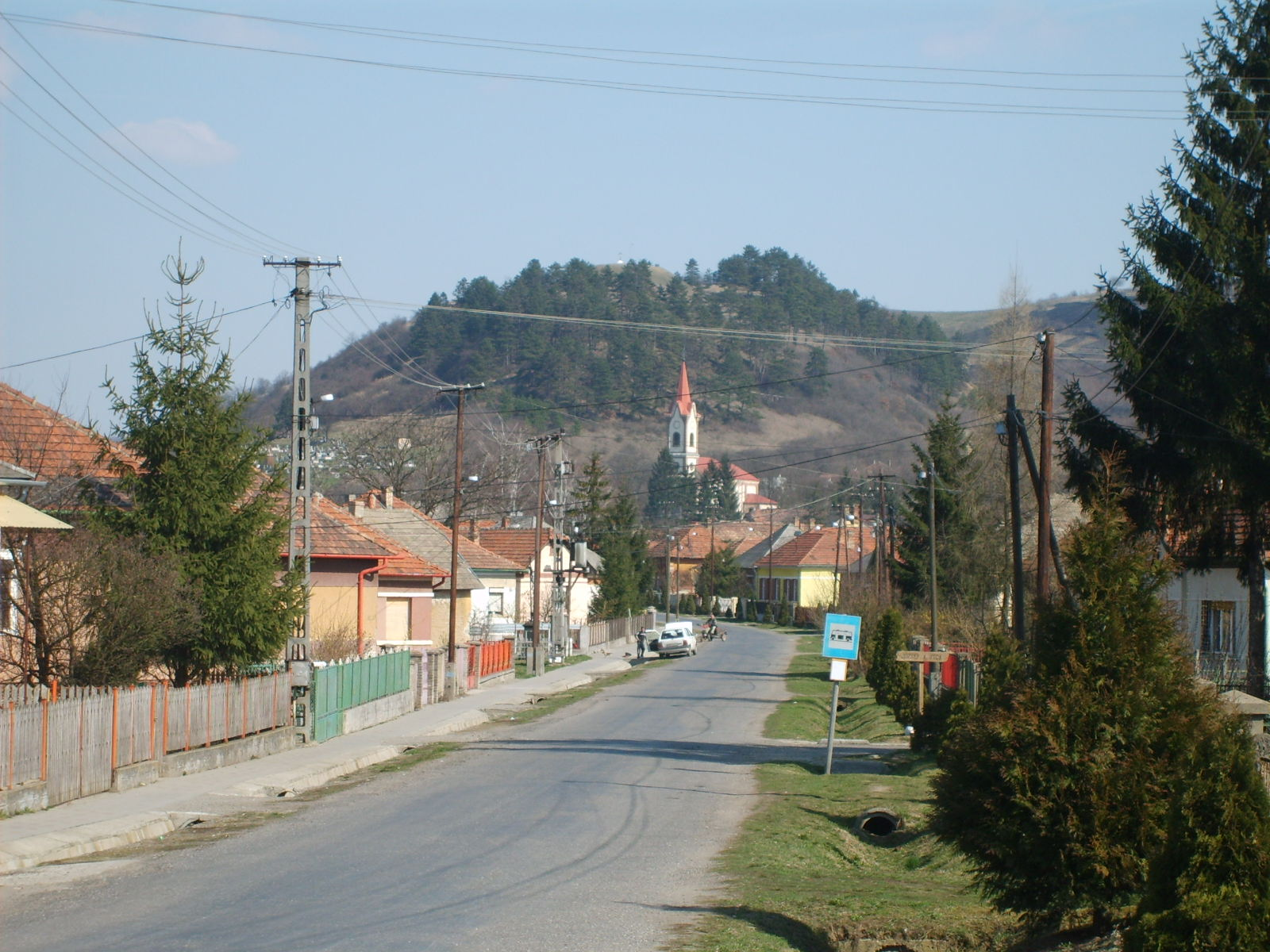 Village Sajónémeti